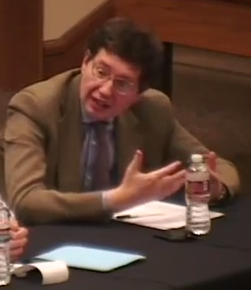 Northwestern Priztker School of Law Professor John O. McGinnis